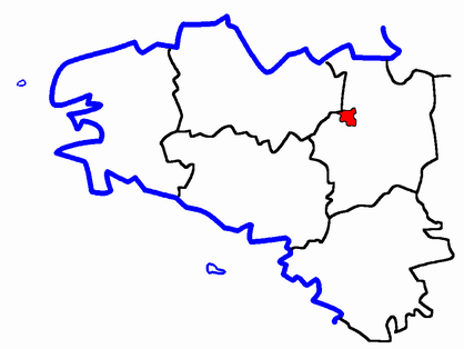 Description: Map for localisazion of cantons of Bretagne region in France Source: made by Hervé Tigier from another large map